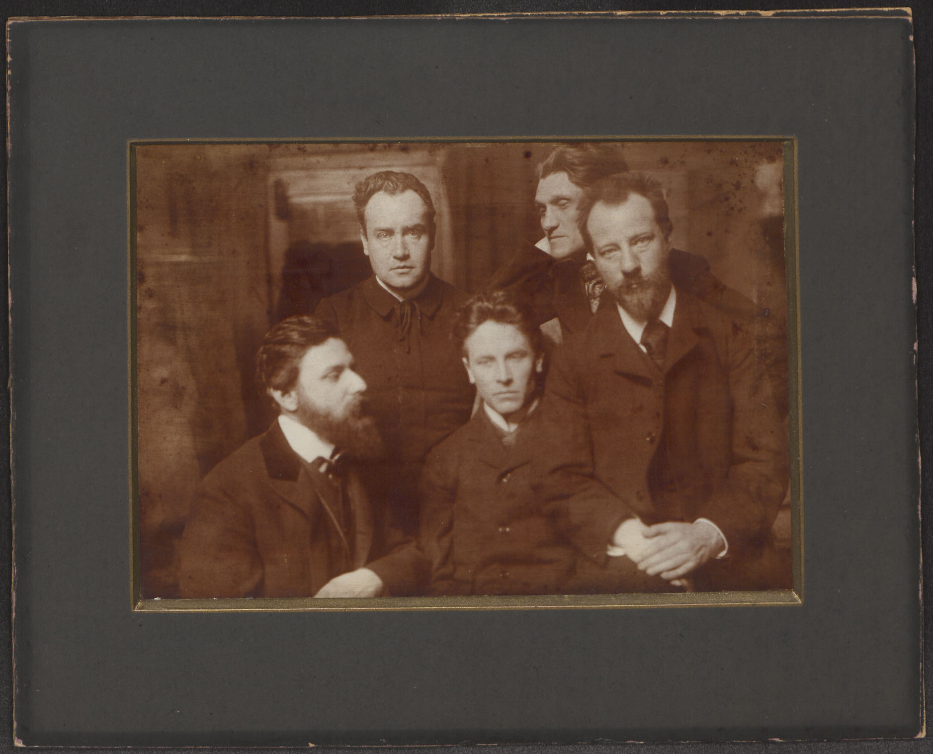 Group portrait with (from left to right): Karl Wolfskehl, Alfred Schuler, Ludwig Klages, Stefan George, Albert Verwey. Photo by Karl Bauer. Collection Amsterdam University Library [HS. XLI F 88] (1902)